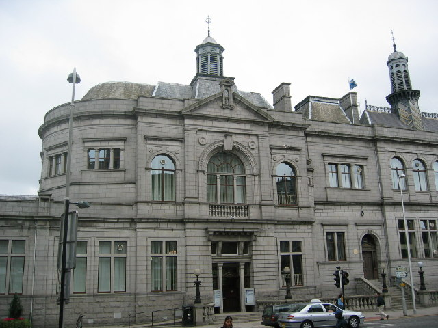 Central Library, Aberdeen Found next to St Mark's church and His Majesty's Theatre.